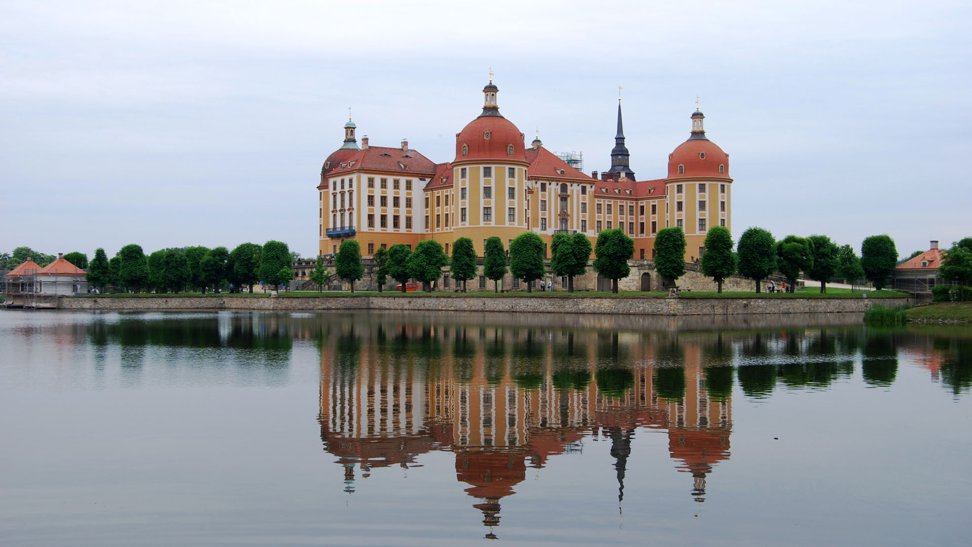 Schloss Moritzburg is about twenty driving minutes away from Dresden. The baroque style castle is sourrounded by a beautiful park and is placed next to a small lake. The picture shows the castle reflected by the water surface of the lake.